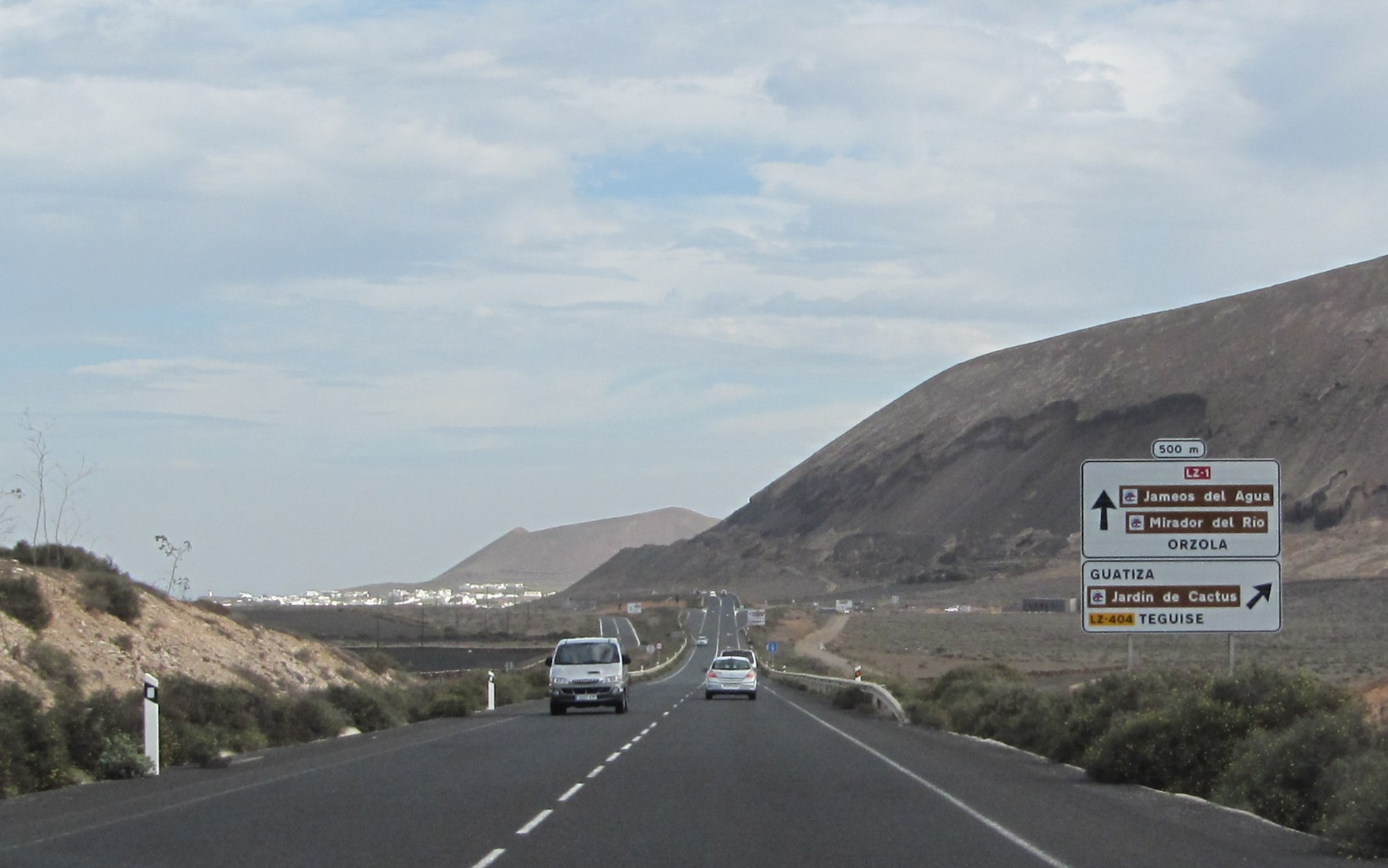 LZ1 near Guatiza